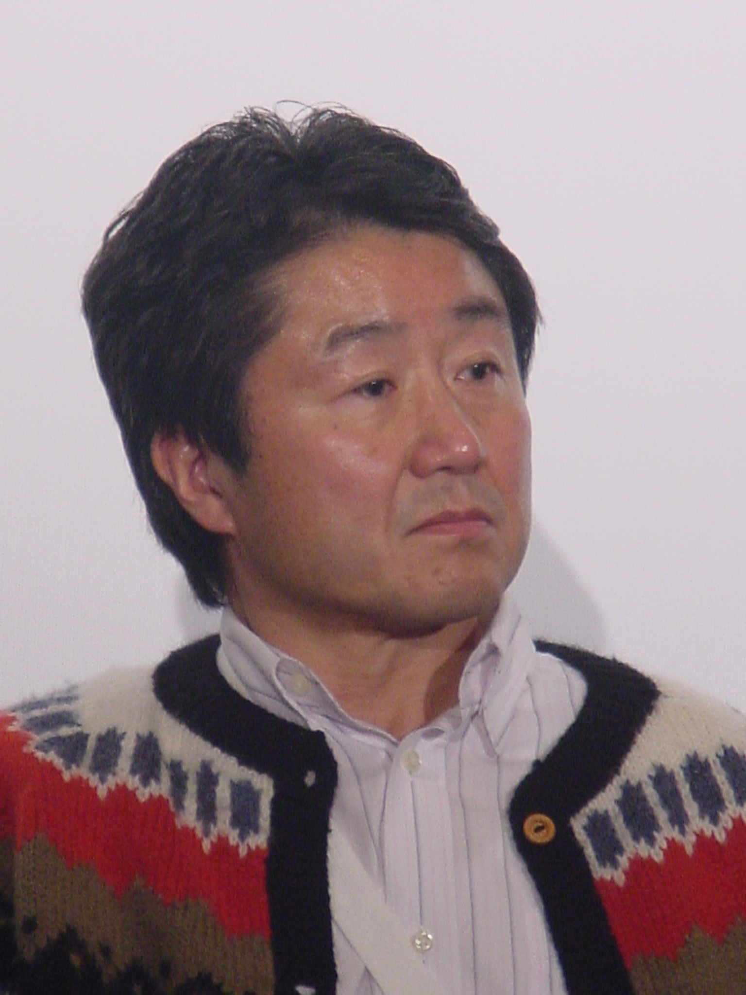 Japanese film director Junichi Suzuki at the Tokyo International Film Festival 2010